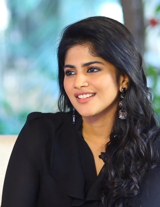 Indian film actress Megha Akash promoting her Telugu film Chal Mohan Ranga in April 2018.